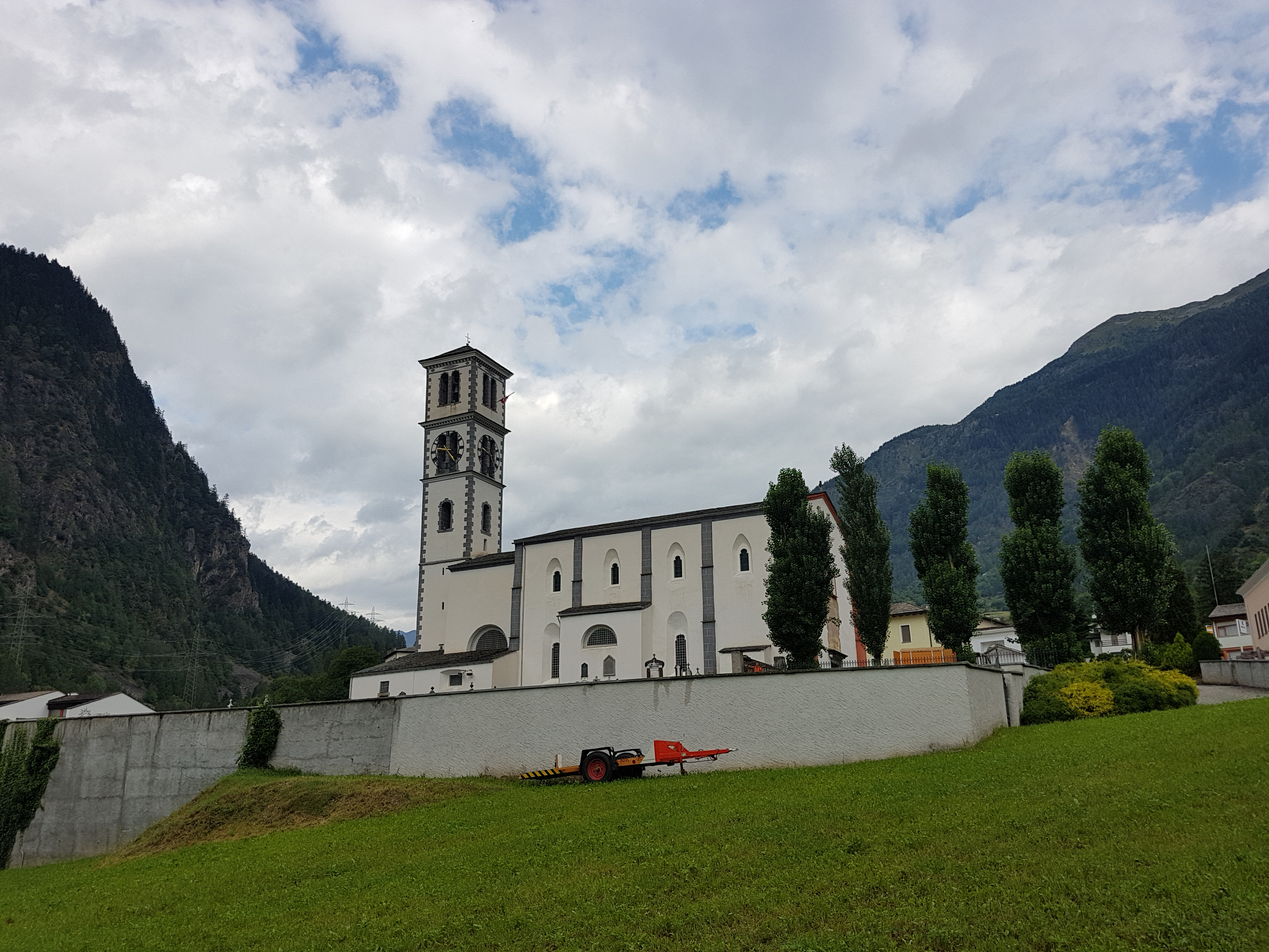 Brusio is a municipality and a circle of the canton of Grisons, Switzerland. Catholic Church hl. Charles Borromeo in Brusio.